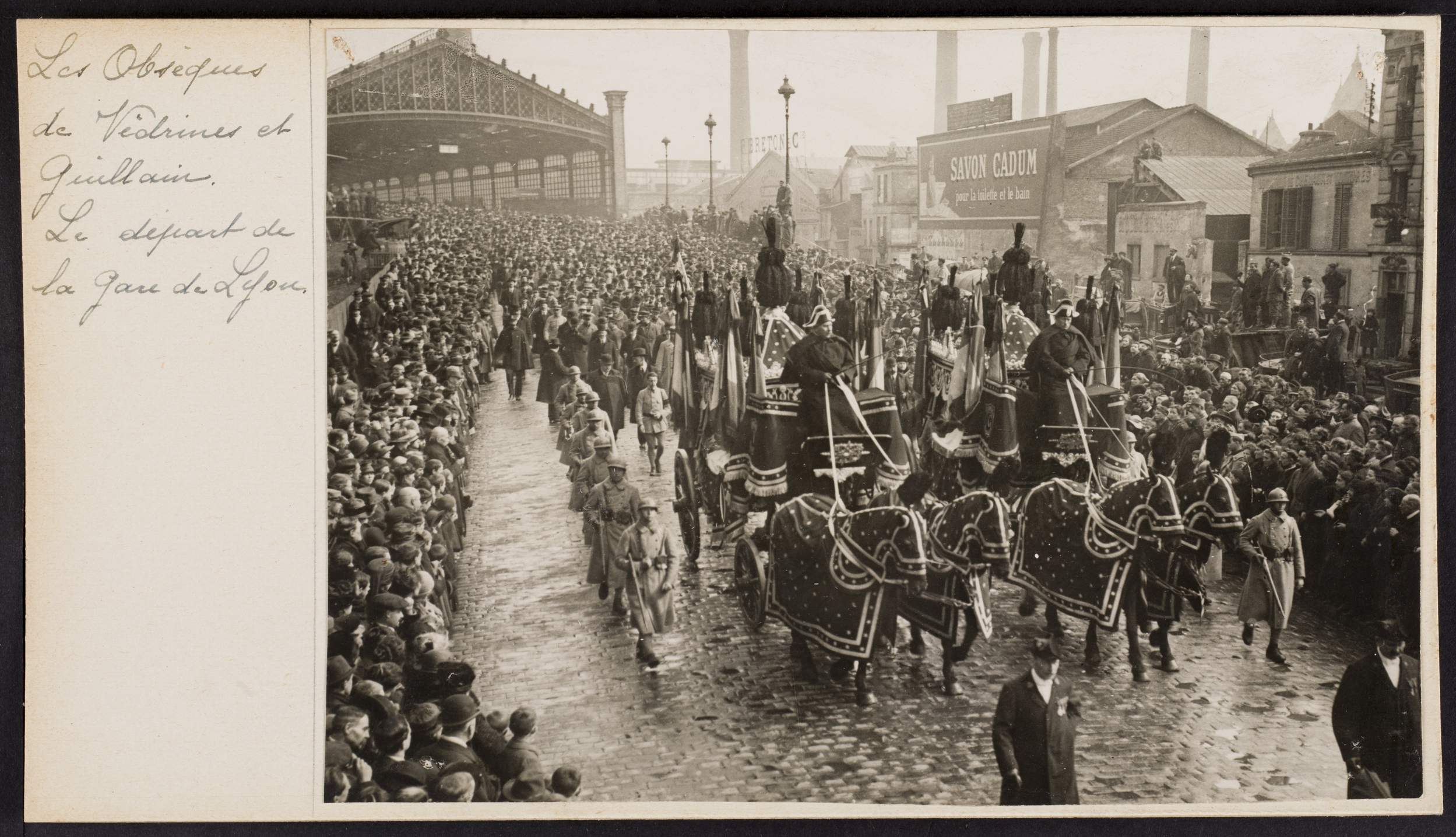 Les obsèques de Védrines et Guillain. Départ de la gare de Lyon.